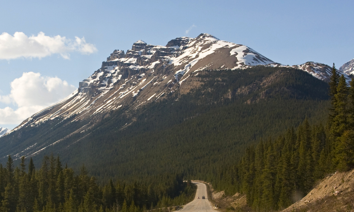 Leaving Lake Louise, on the Icefields Parkway